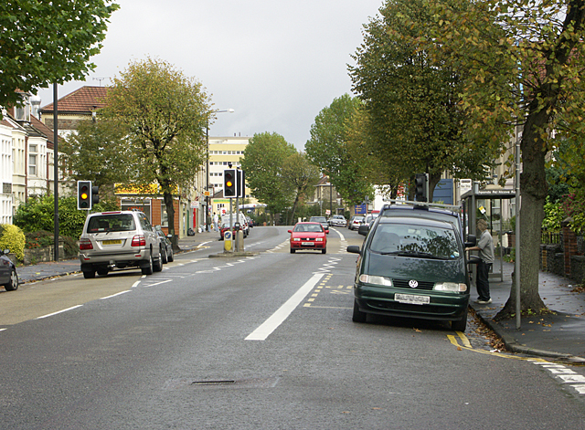 Fishponds Road, Ridgeway, looking WNW. In the part of Bristol called Ridgeway, on the A432 (Fishponds Road), looking WNW. The junction with the B4048 is next to the tall cream coloured building visible above the traffic island. The turning immediately on the right (at bottom of picture) is into Alcove Road at its western-most end.